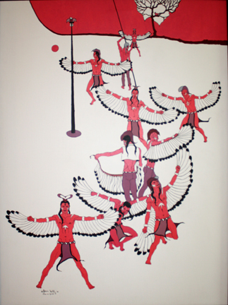 Photo of painting by Joan Hill (Muscogee Creek-Cherokee) artist from Oklahoma, 2006